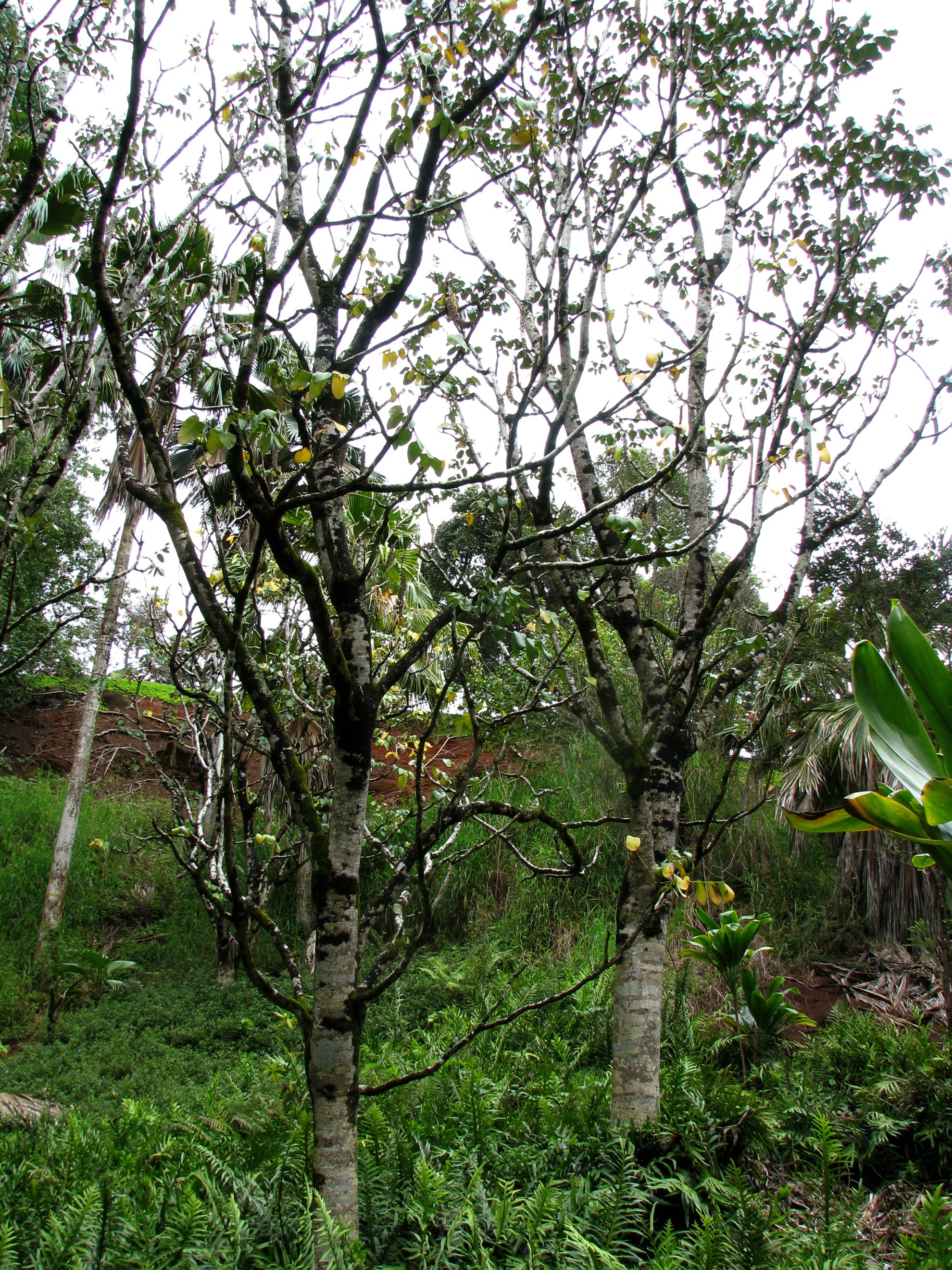 [syn. Munroidendron racemosum] Pōkalakala or Munroidendron Araliaceae Endemic to the Hawaiian Islands (Kauaʻi only) Oʻahu (Cultivated) NPH00007